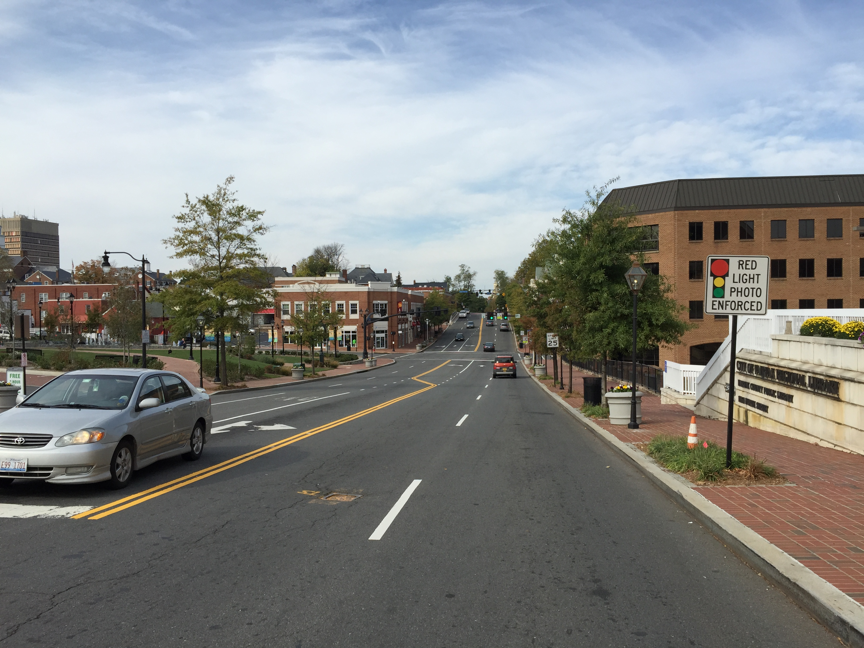 View west along Virginia State Route 236 (North Street) at Old Lee Highway in Fairfax, Virginia